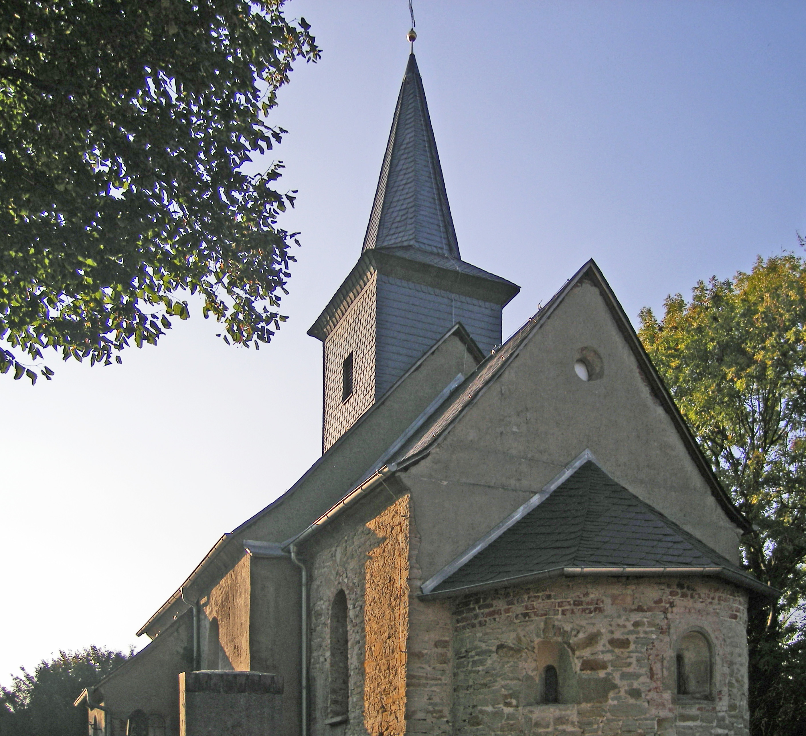 Church in Lucka-Breitenhain near Altenburg/Thuringia